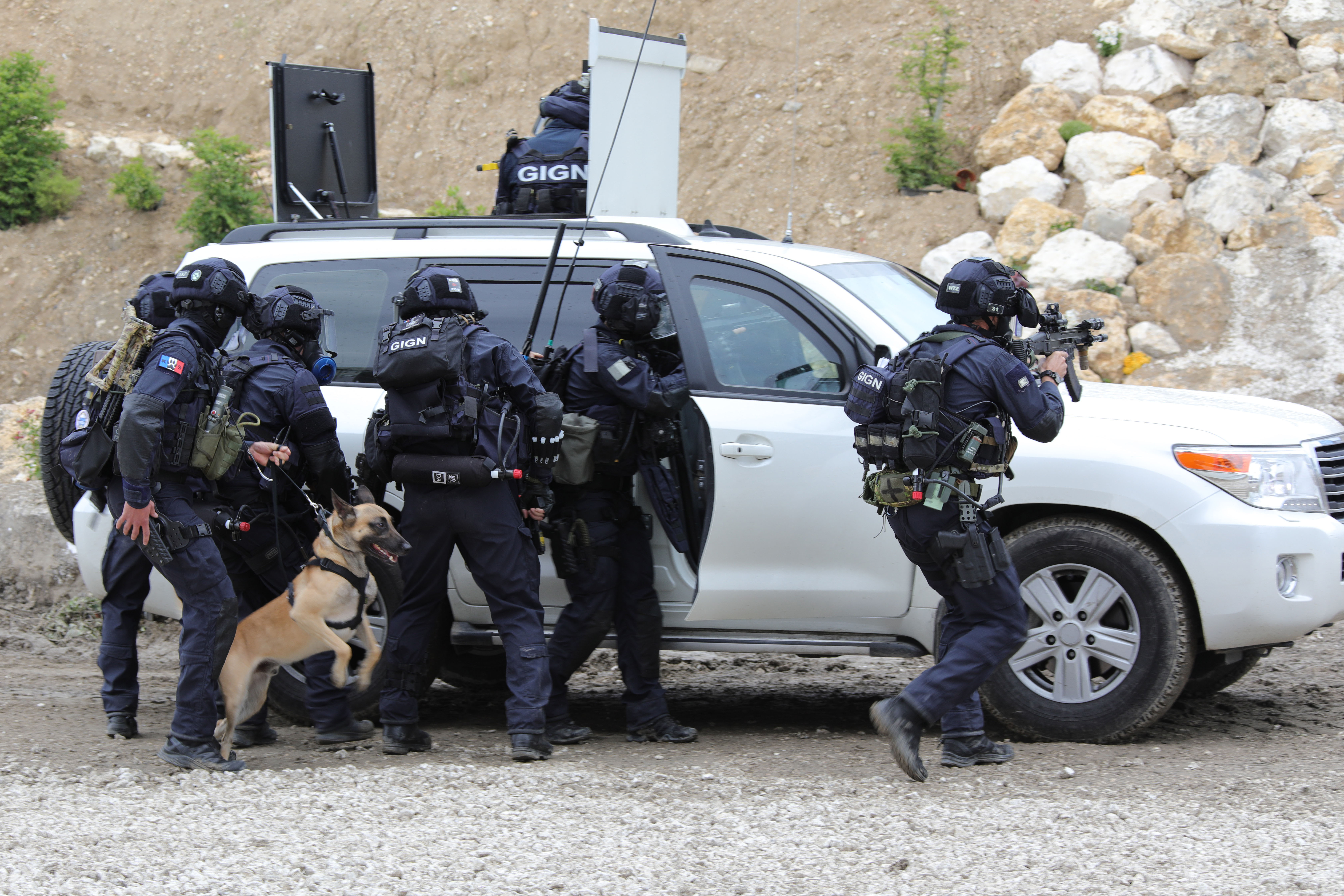 GIGN assault team with Centigon armoured SUV during a demo - June 2018